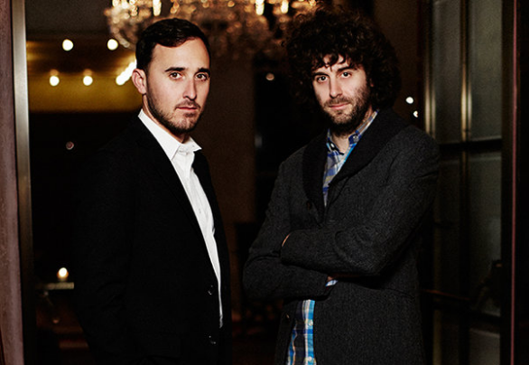 Nat and Jonny